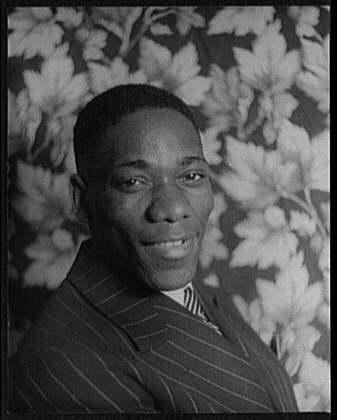 Portrait of Oscar Polk (1899–1949), American actor Portrait of Oscar Polk (1934 Jan. 24)